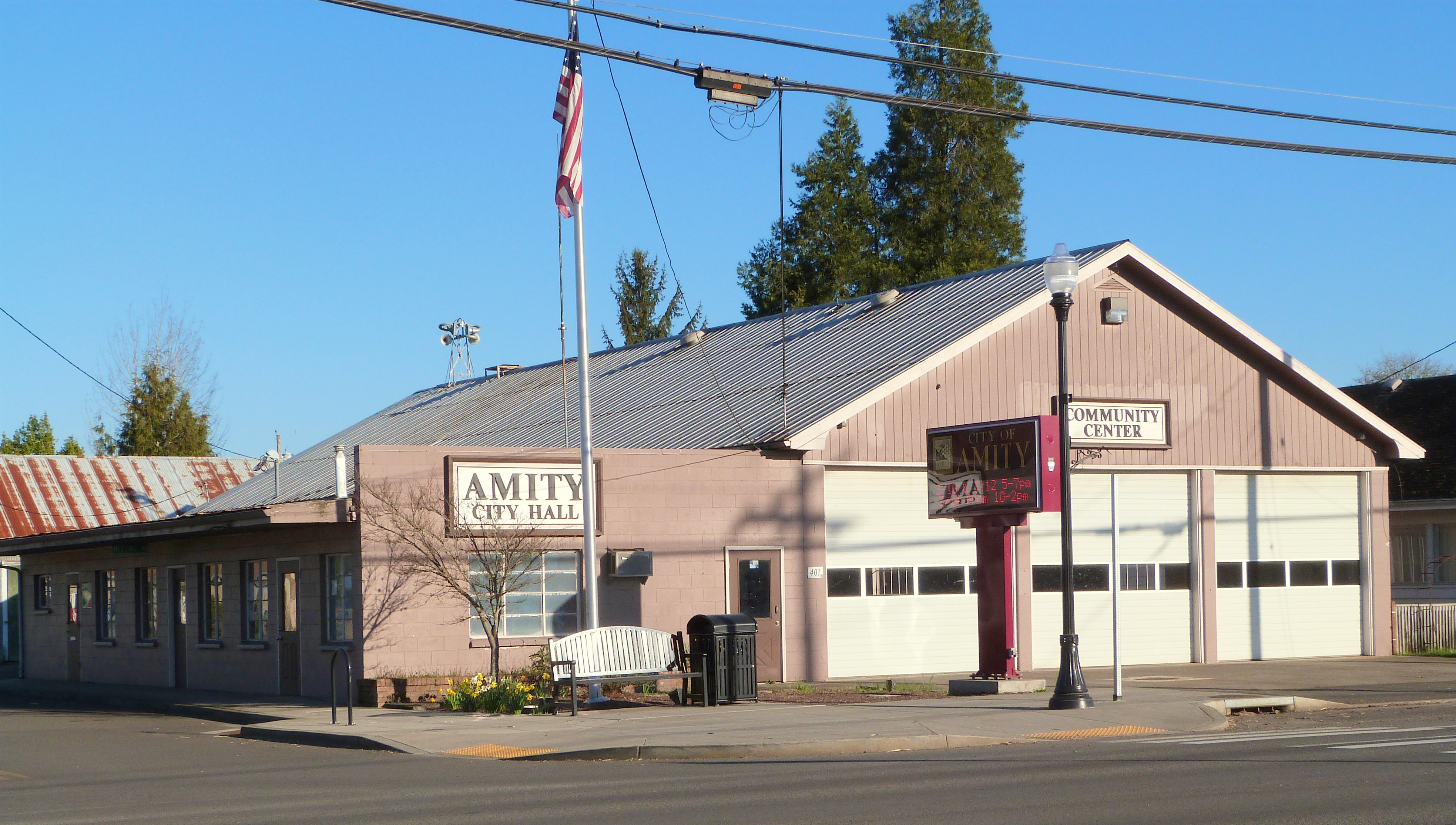 City Hall and adjoining community center in Amity, Oregon, United States.